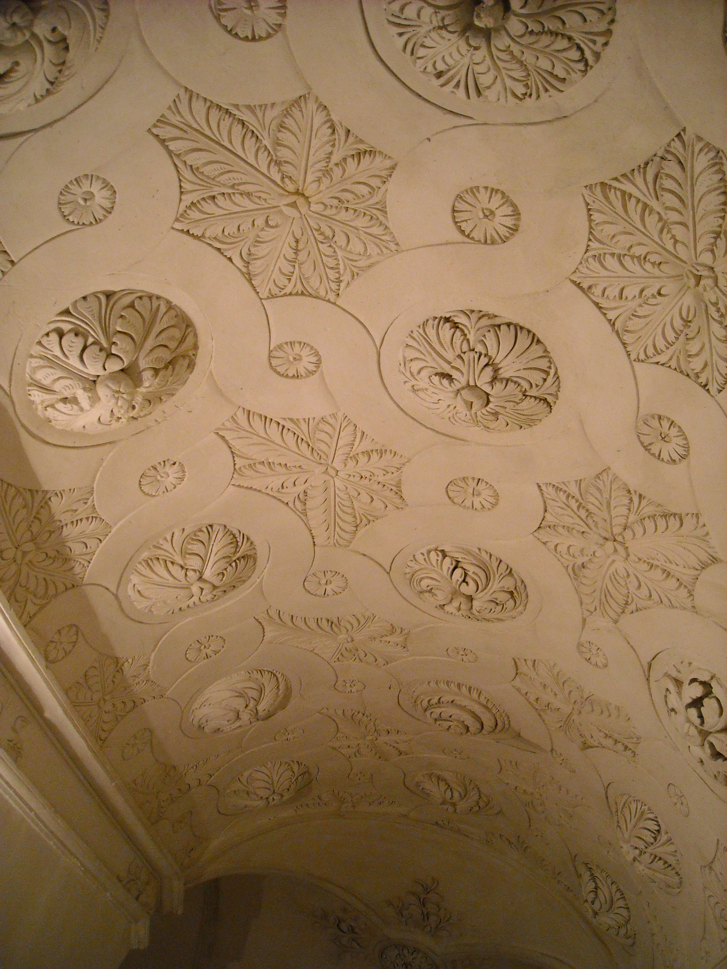 Gypseries dans l'escalier du château de Volonne